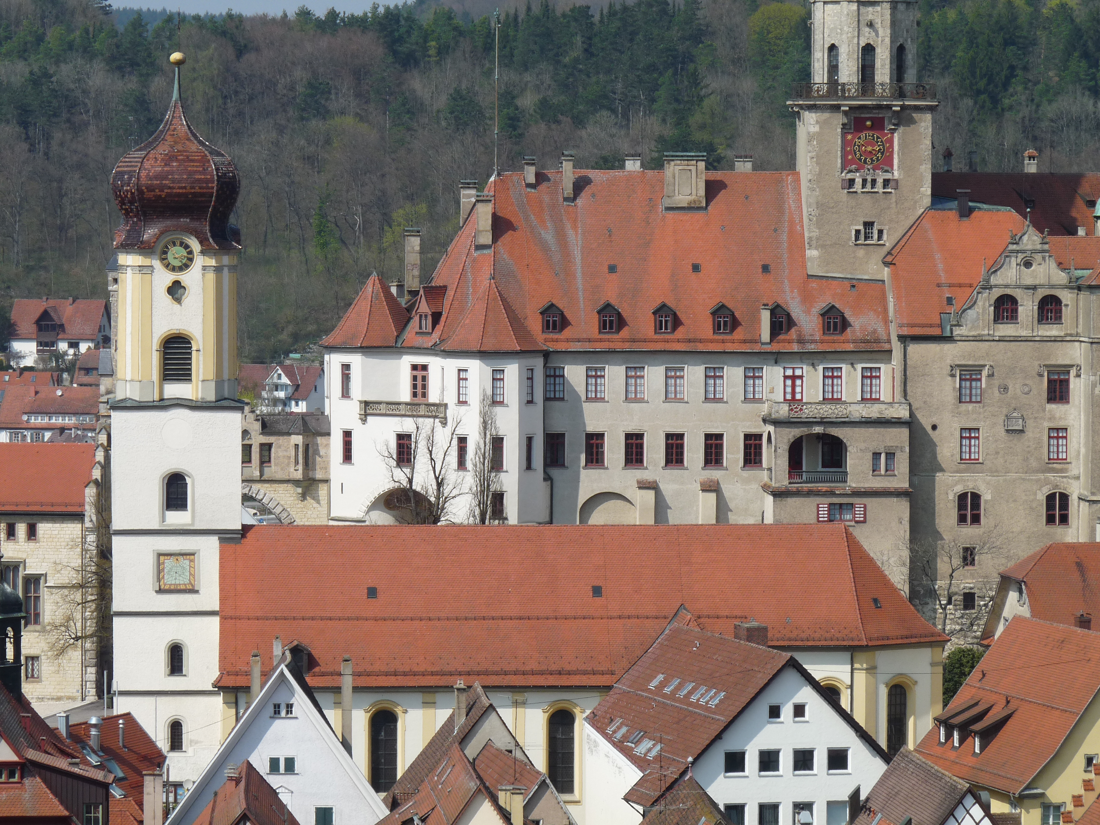 Church St. Johann in Sigmaringen, Germany